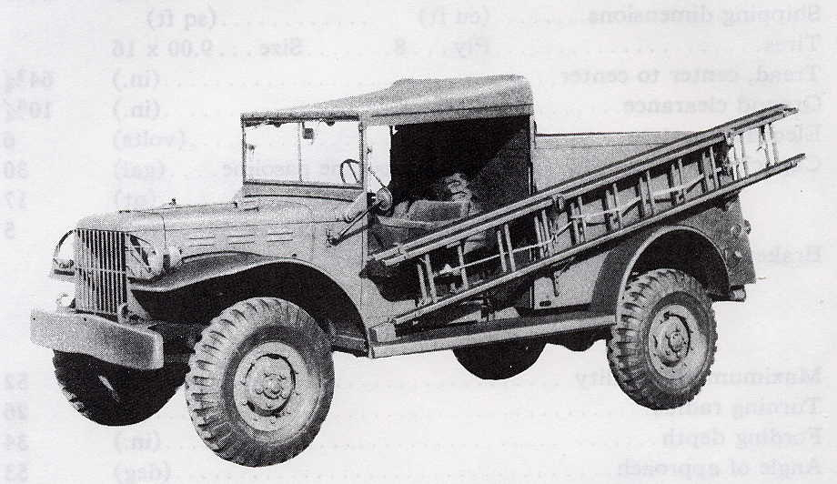 DodgeWC-59 telephone truck